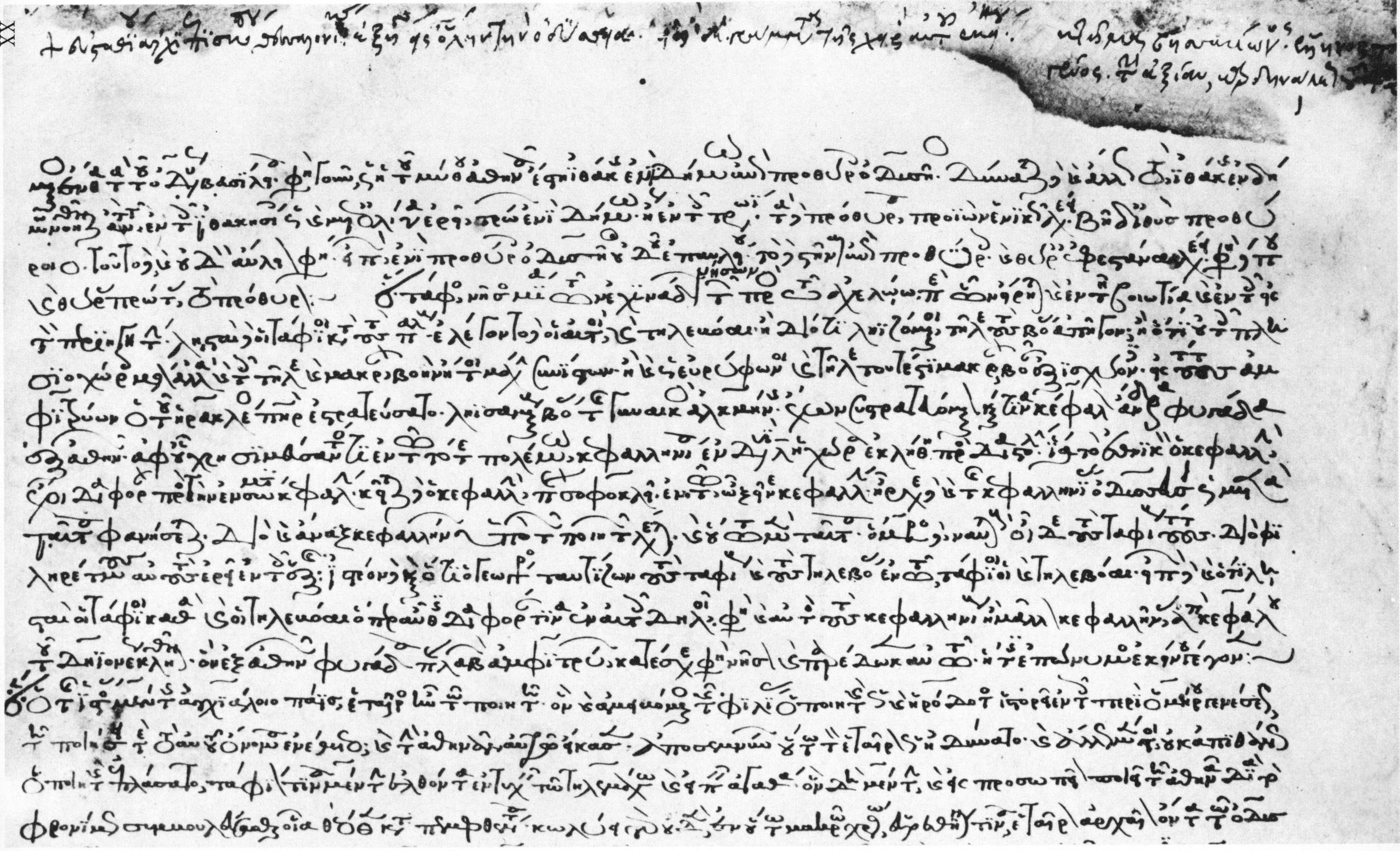 Eustathius of Thessalonica, Commentary on Homer’s Odyssey, in the autograph manuscript Venice, Biblioteca Marciana, Gr. 460, fol. 1r.